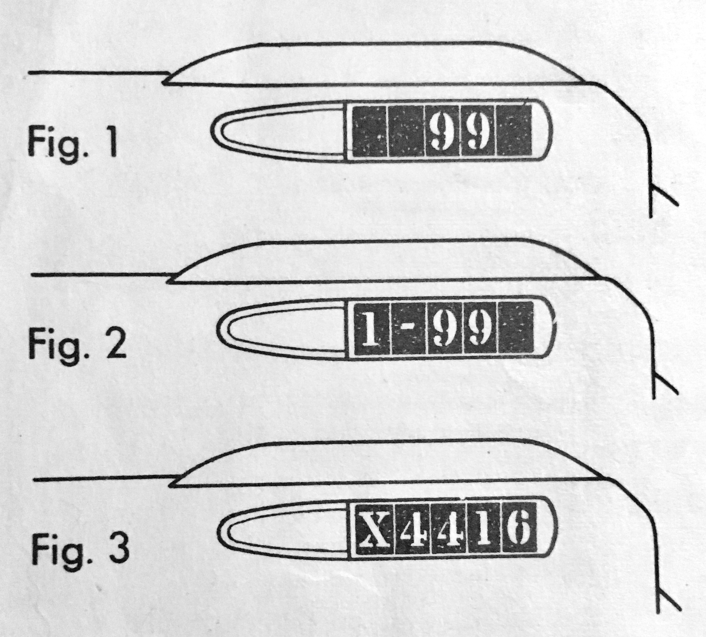 What the numbers on SP locomotives mean